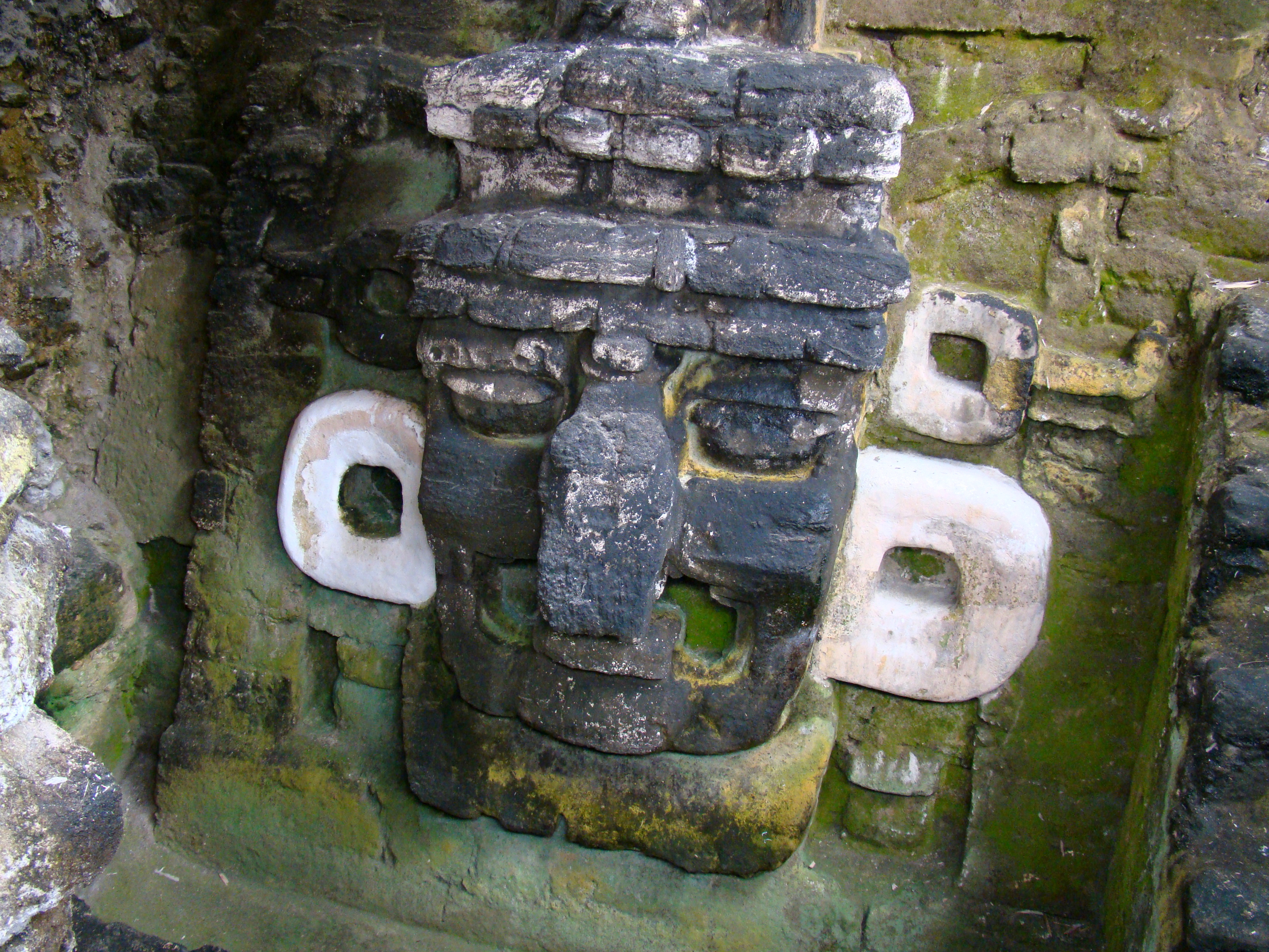 A large stucco mask adorning the substructure of Temple 33 in the North Acropolis in Tikal, Guatemala.